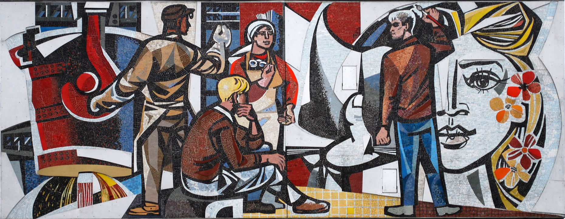 South-west side of the mosaic on "Haus des Lehrers" at Berlin Alexanderplatz